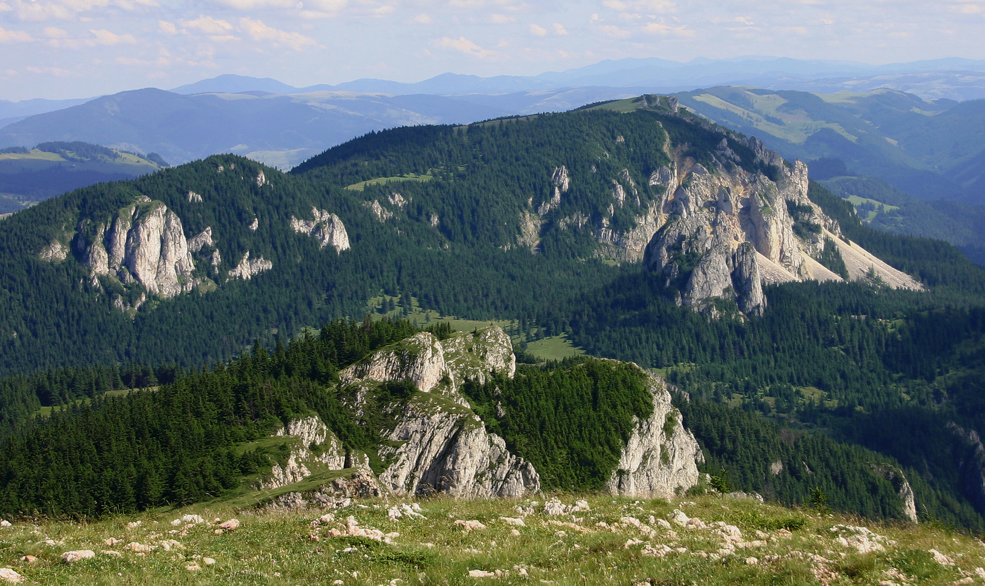 Hășmaș (Hagymás) Mountains in Transylvania, Romania